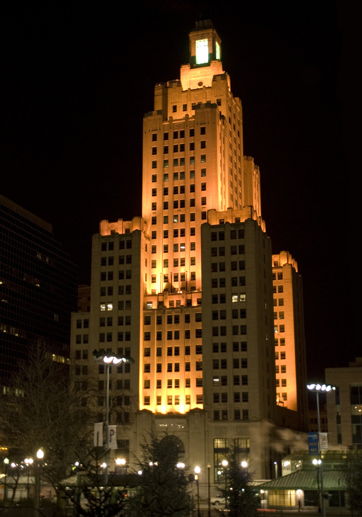 The Bank of America building at Kennedy Plaza, Providence, RI. 1/3", f/5, ISO 200, 34mm